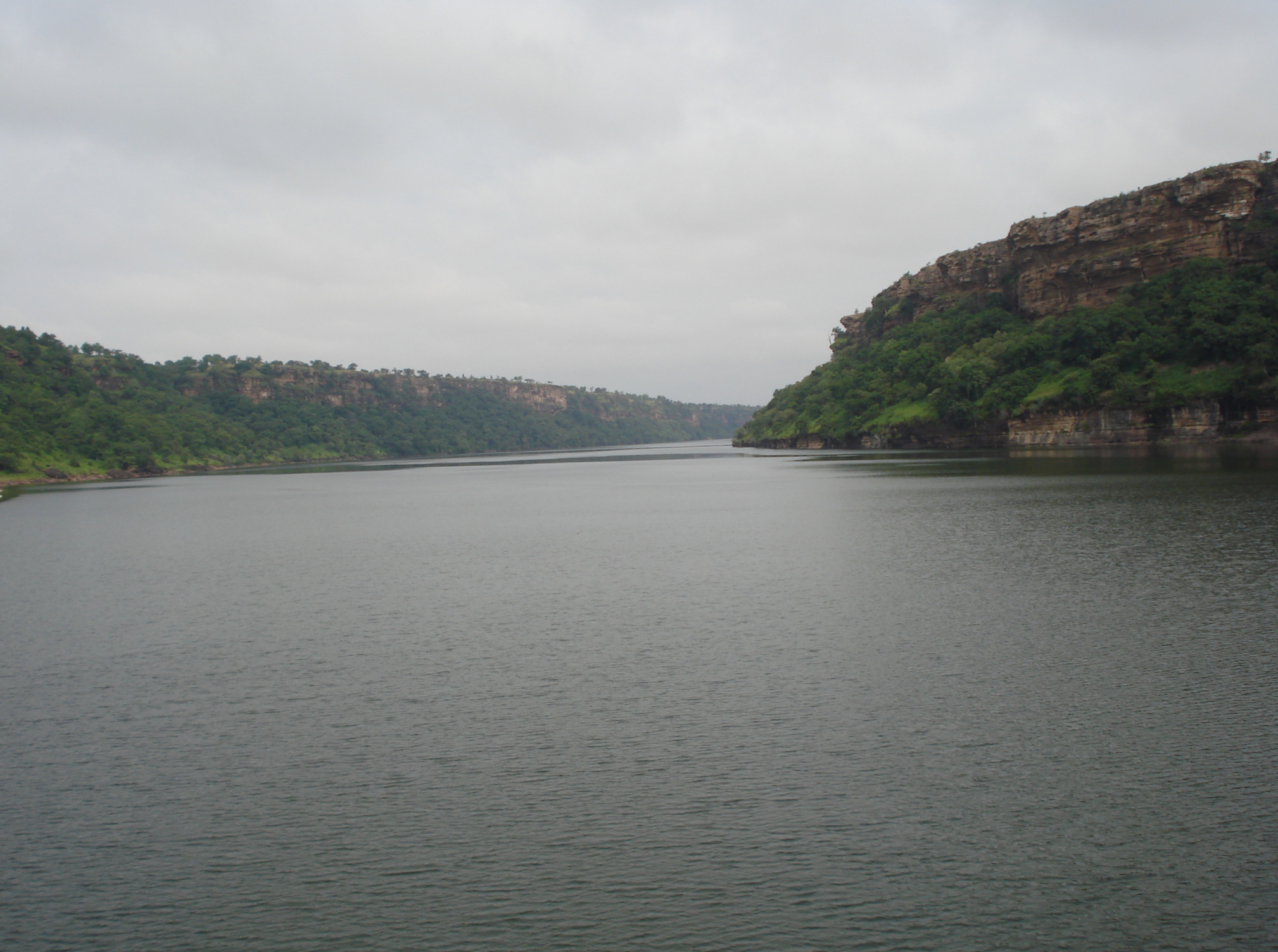 Gandhi_Sagar_Dam down stream in Mandsaur district Madhya Pradesh, India